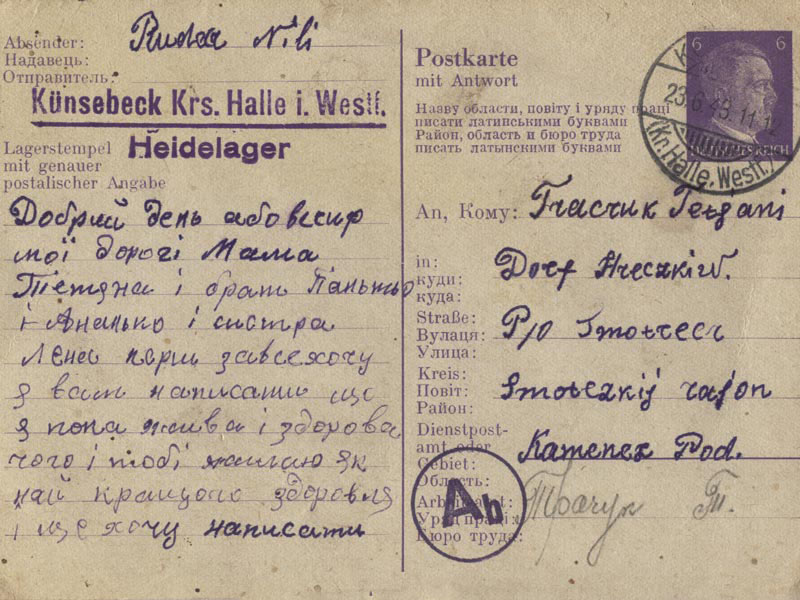 German Postal stationery postcard printed for camp mail during World War II. Letter Ostarbaiter (?) Home, 1943. All the card's instructions are given in three languages ​​- German, Ukrainian and Russian. Camp stamp contains the name of the camp ("Kyunzebek, DC Halle in Westphalia. Purple Ab in circle is a postal censorship handstamp used in Berlin.